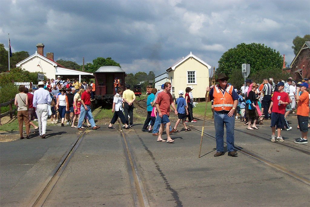 Visitors near Thirlmere Station at Thirlmere Steam Festival, NSW Australia March 2002.